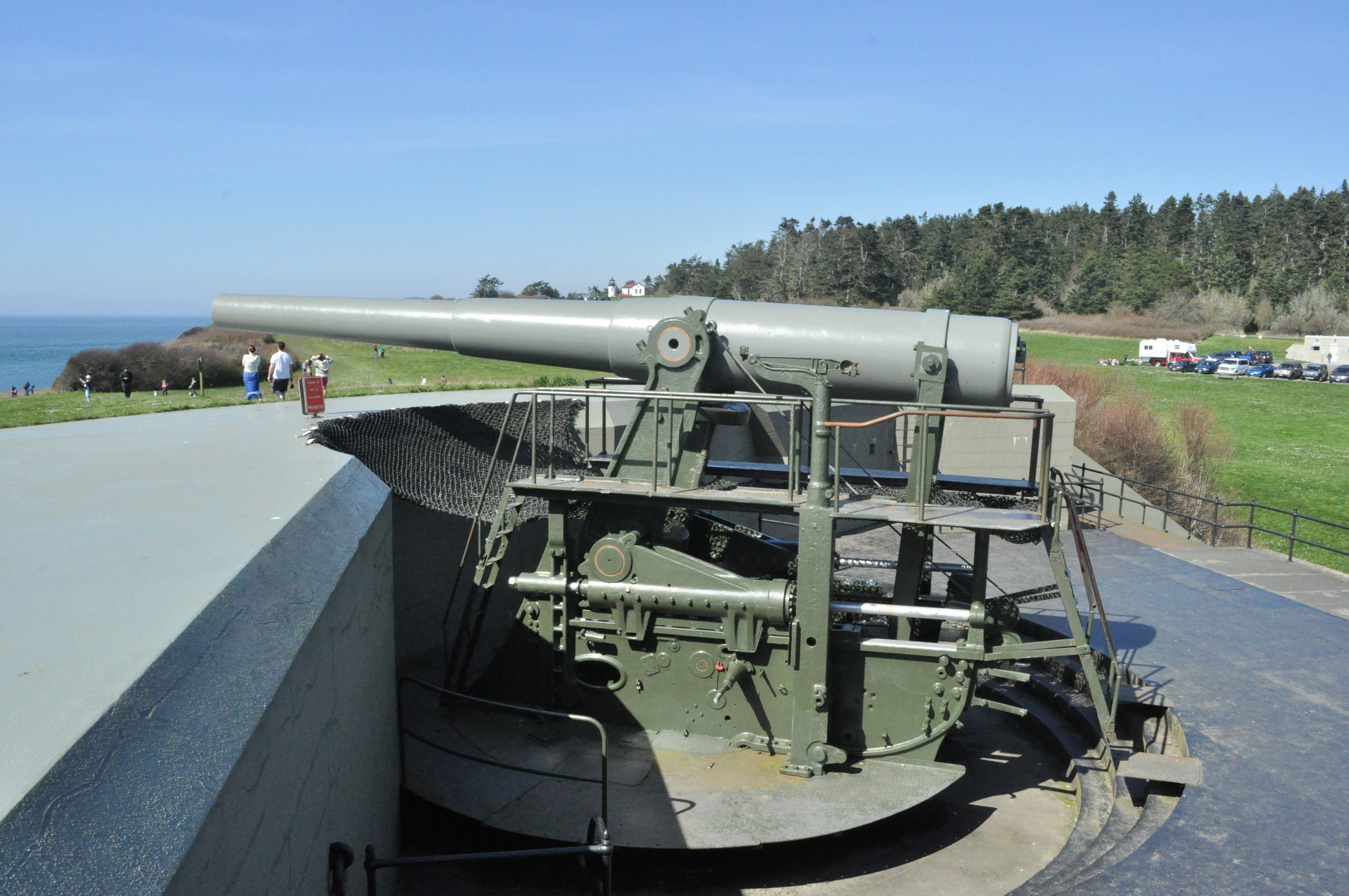 Fort Casey, Whidbey Island, Washington.